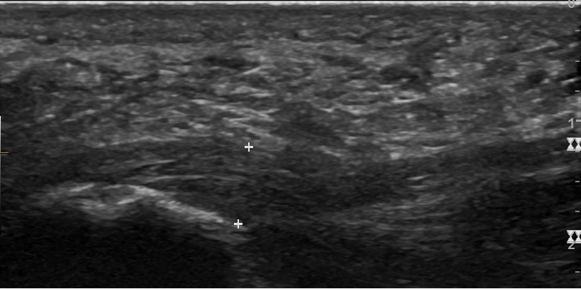 Plantarfasciosis in ultrasound